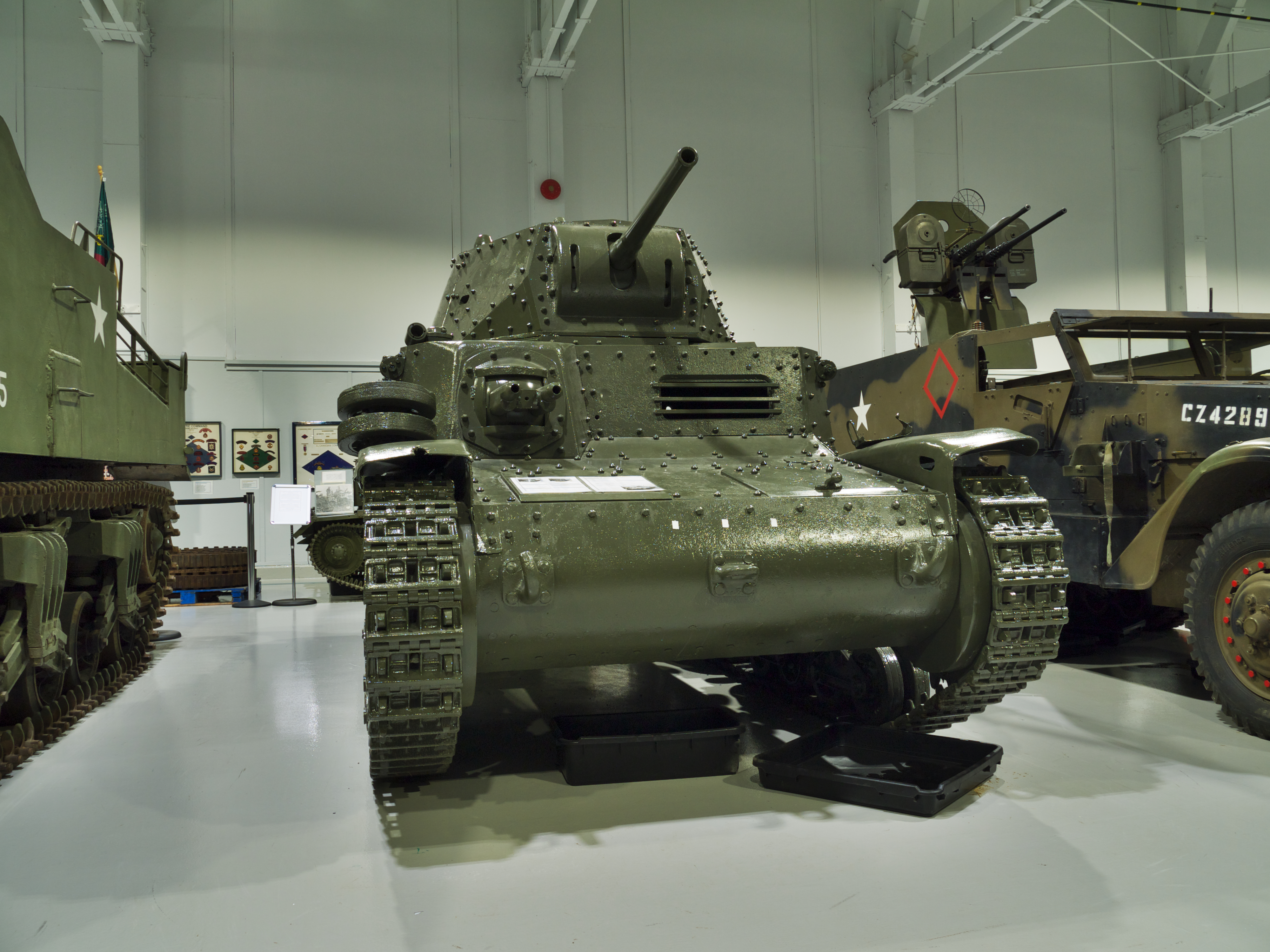 Italian M13/40 light tank at Base Borden Military Museum